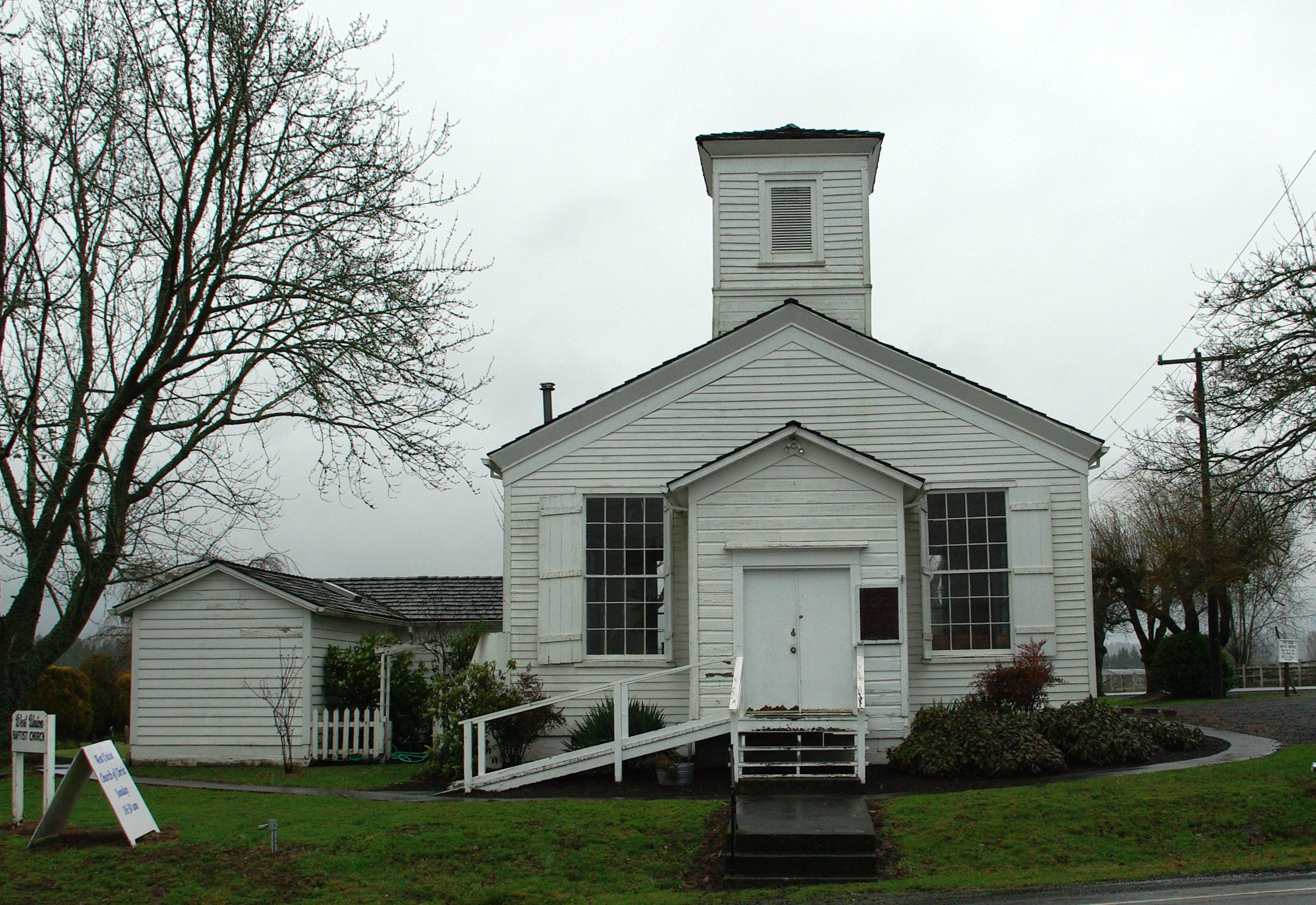 Front of the West Union Baptist Church in West Union, Oregon, USA.